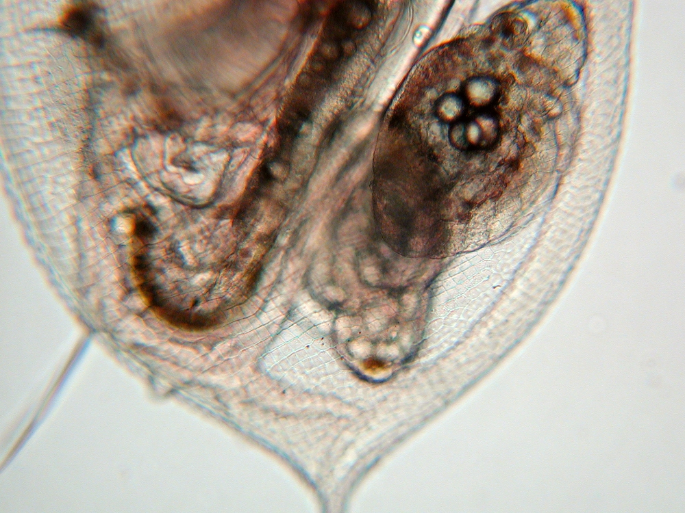 Daphnia spec., Frankfurt/Main, Germany